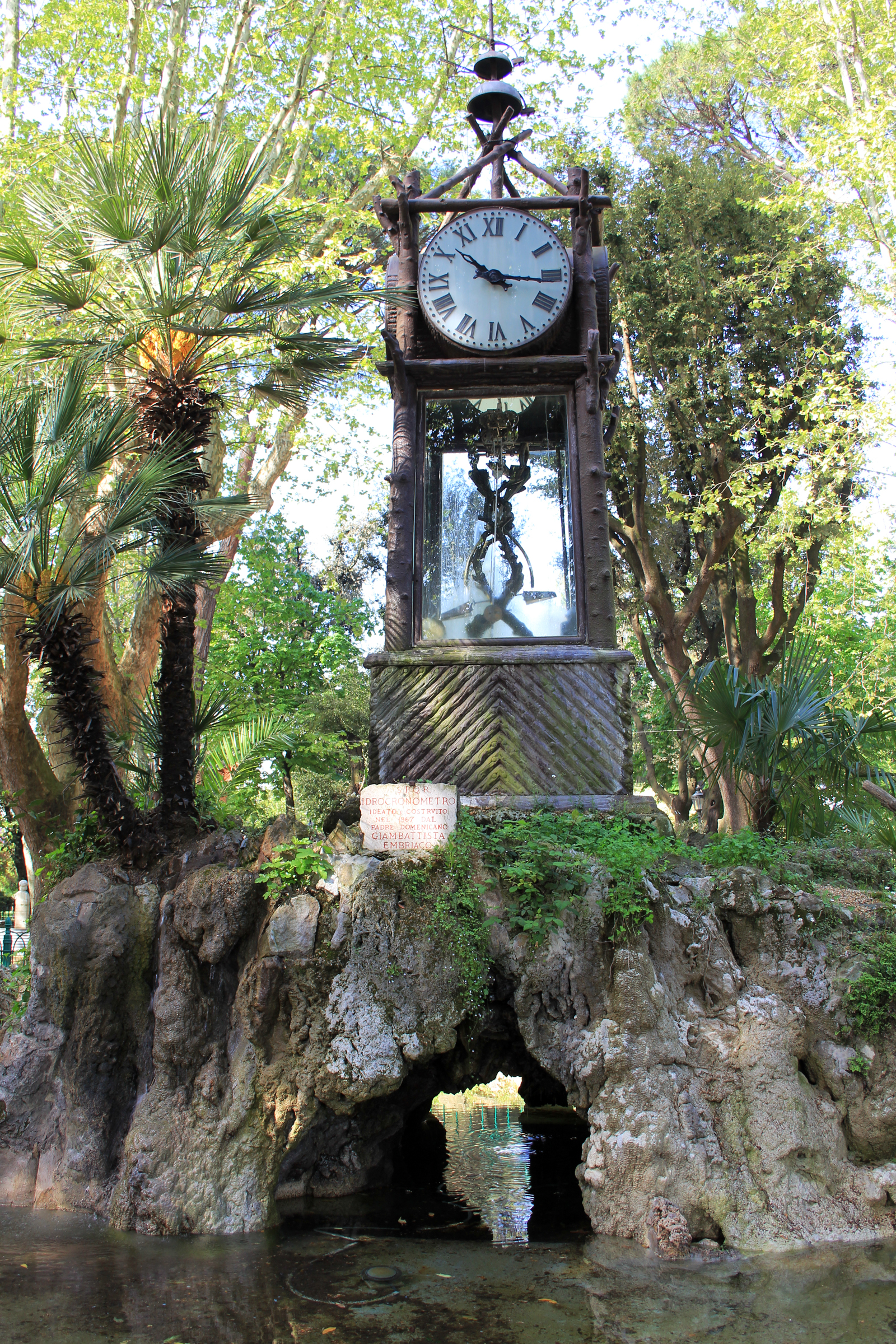 Water clock in Villa Borhgese gardens, Rome, Italy